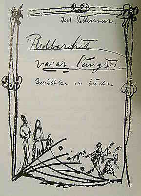 Drawing by Joel Pettersson